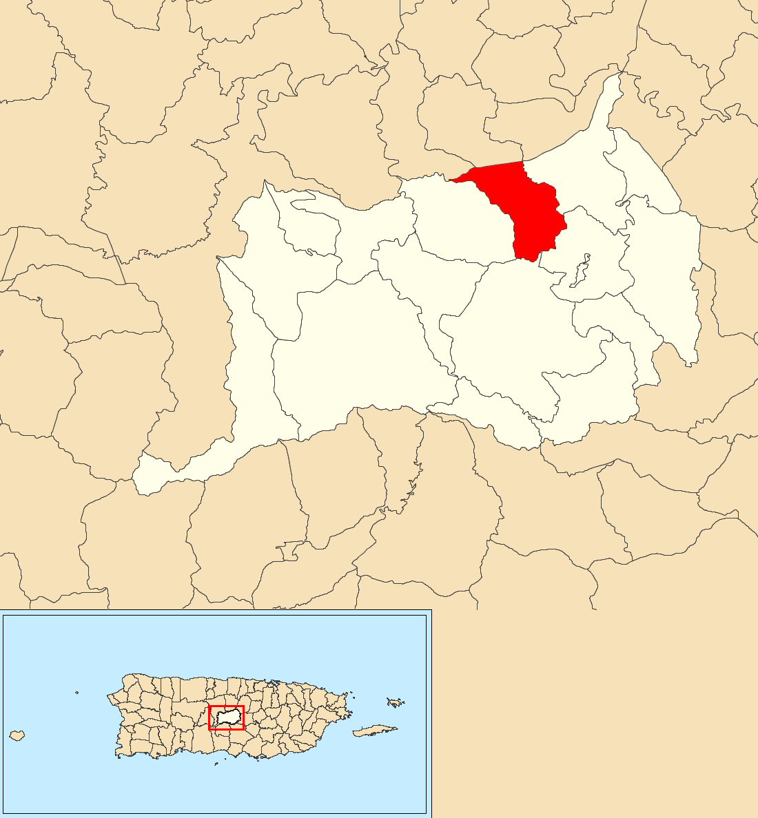 Barros, Orocovis, Puerto Rico locator map